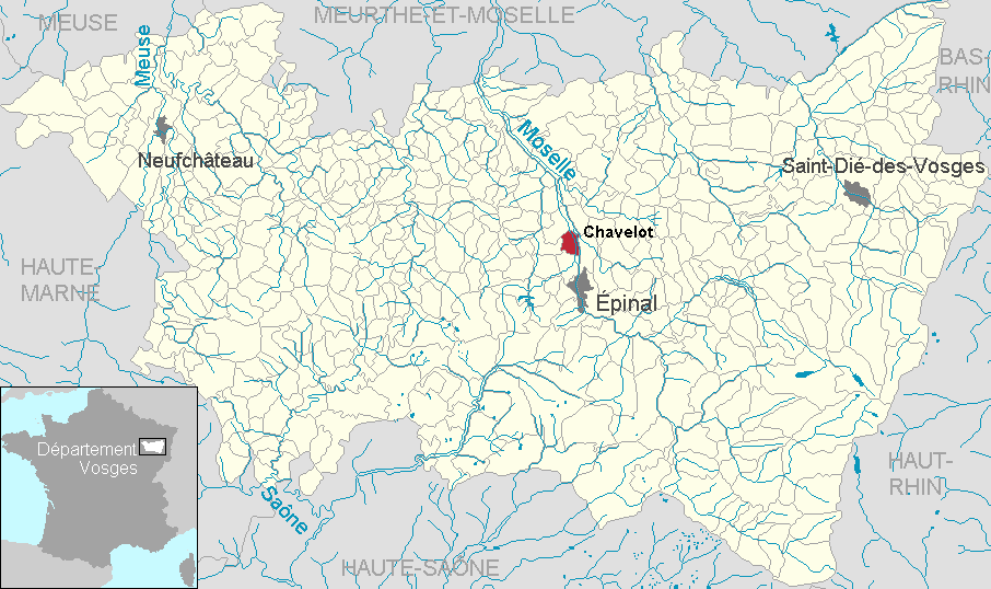 Chavelot in the department of Vosges, Lorraine, France